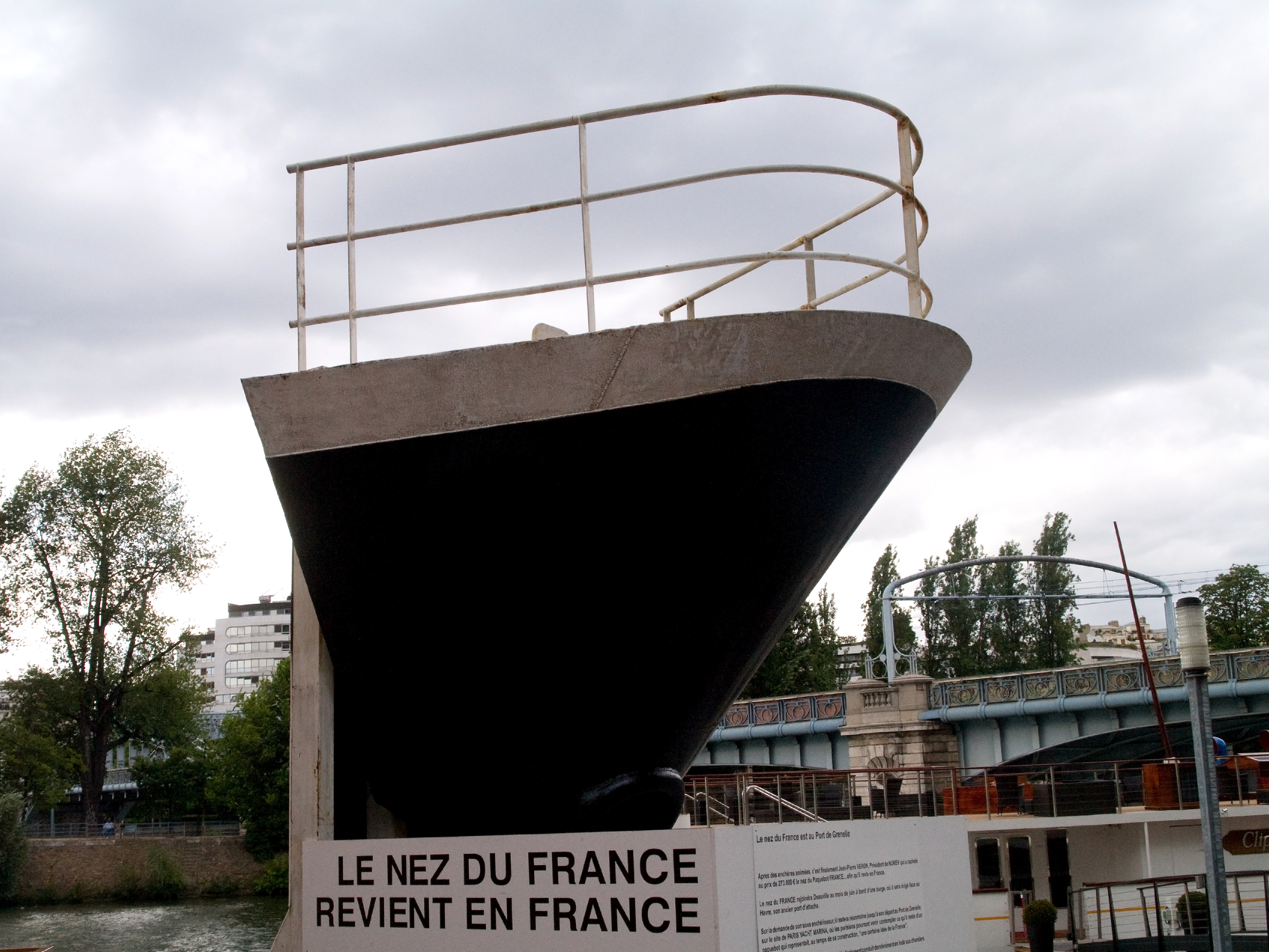 The tip of the bow of the ocean liner SS France/Norway exhibited in the port de Grenelle in Paris, after having been sold by auction in February 2009.